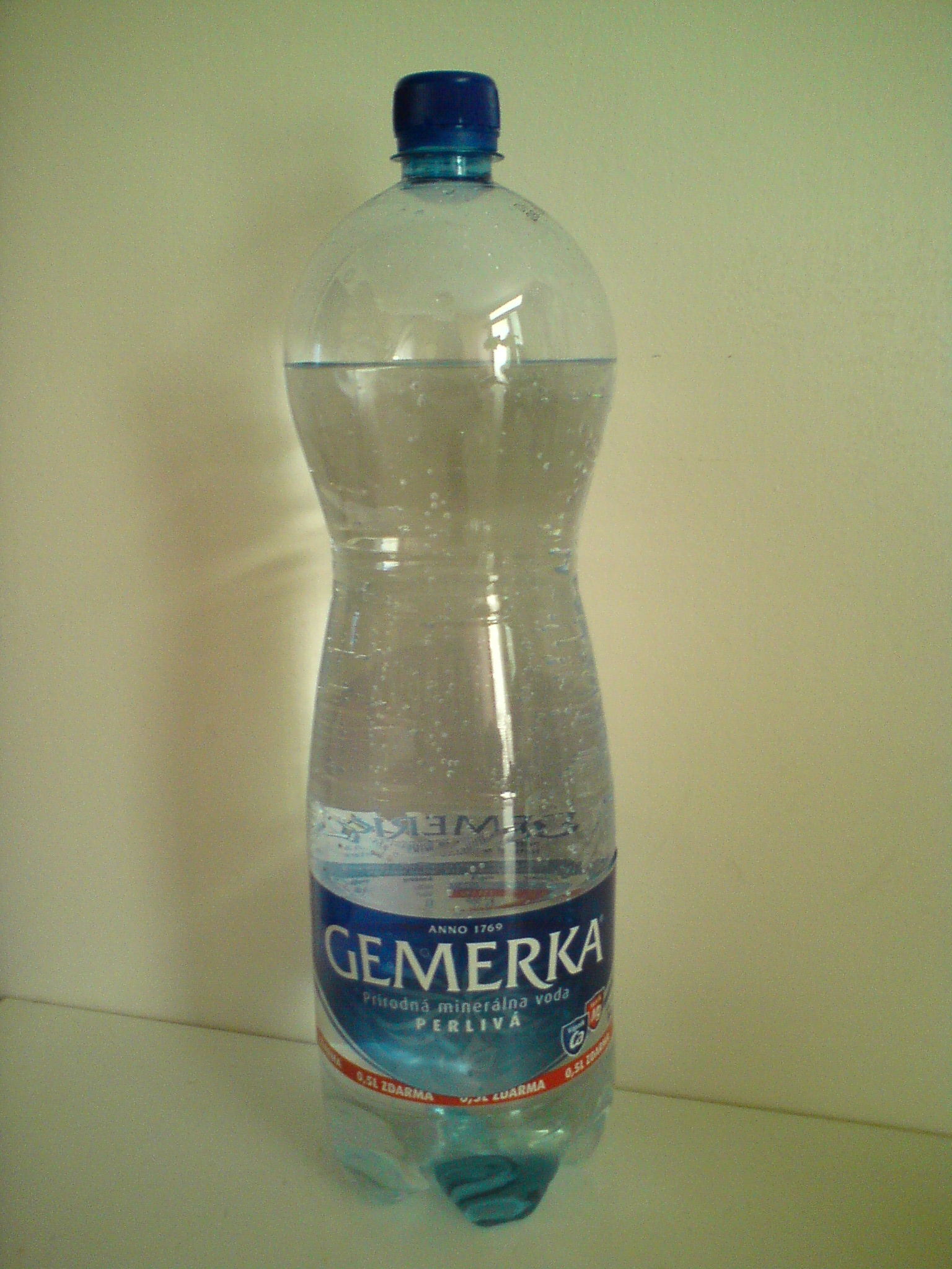 Bottle of slovak mineral water "Gemerka"